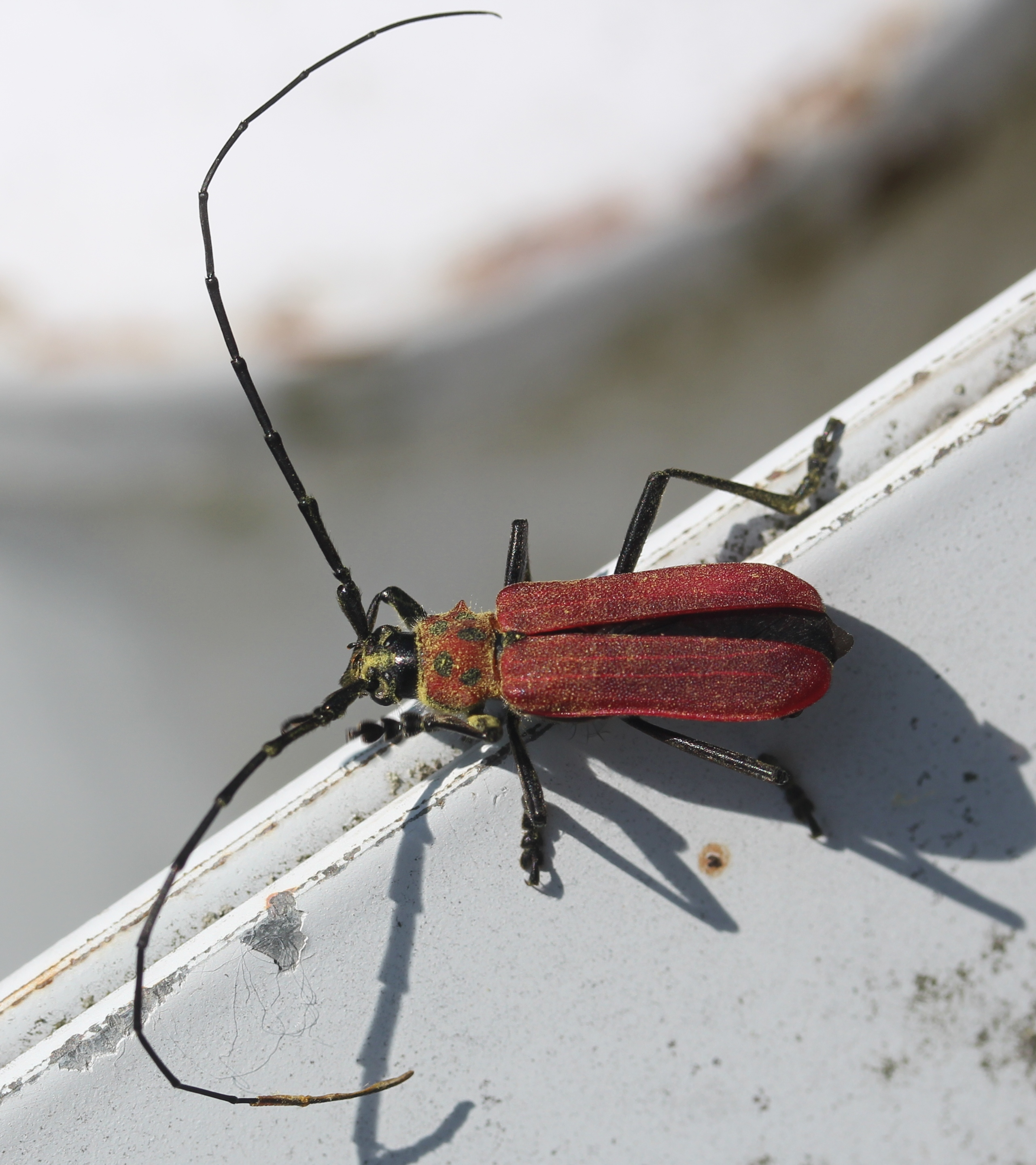 Purpuricenus temminckii, in Kuwana, Mie prefecture, Japan.